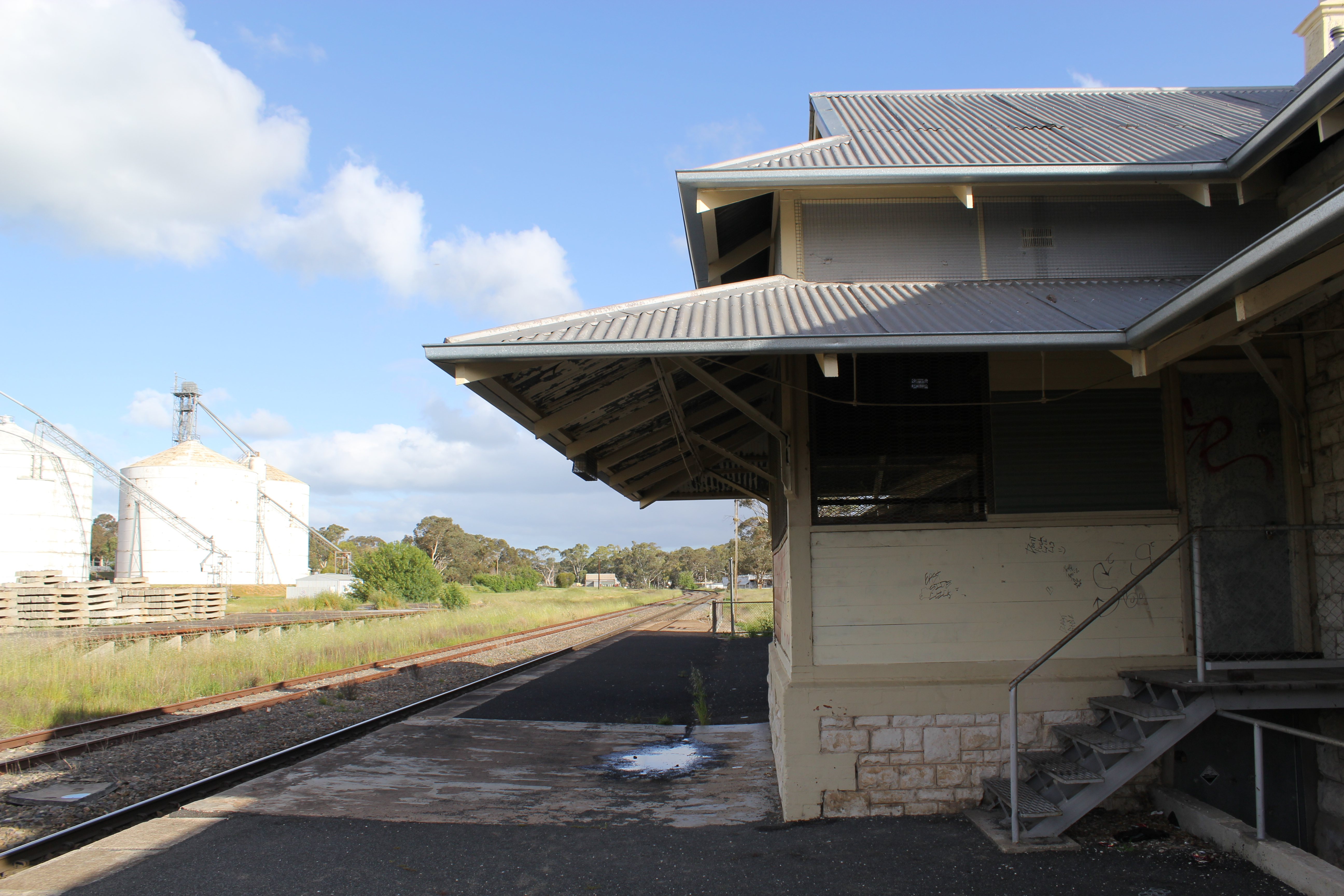 Bordertown Railway Station looking towards Melbourne